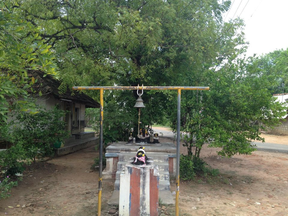 Naval Vinayagar located in south Agraharam